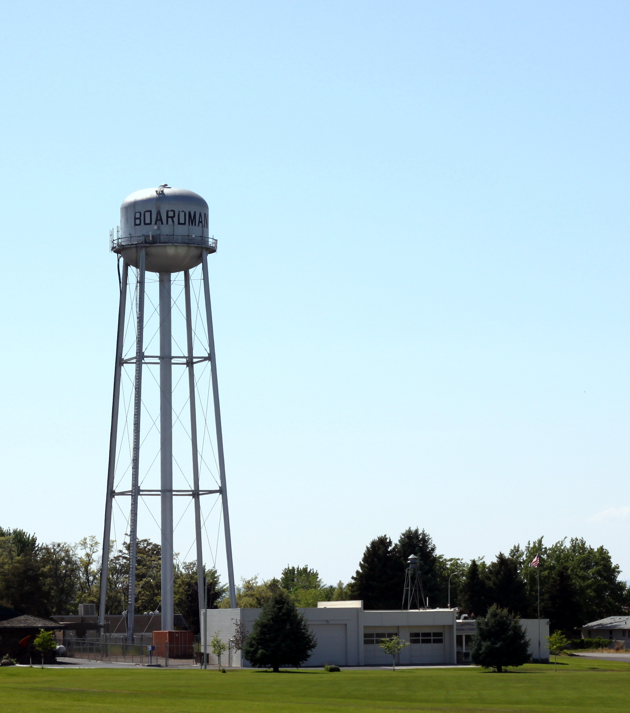 Chamber of Commerce and water tower in Boardman, Oregon.